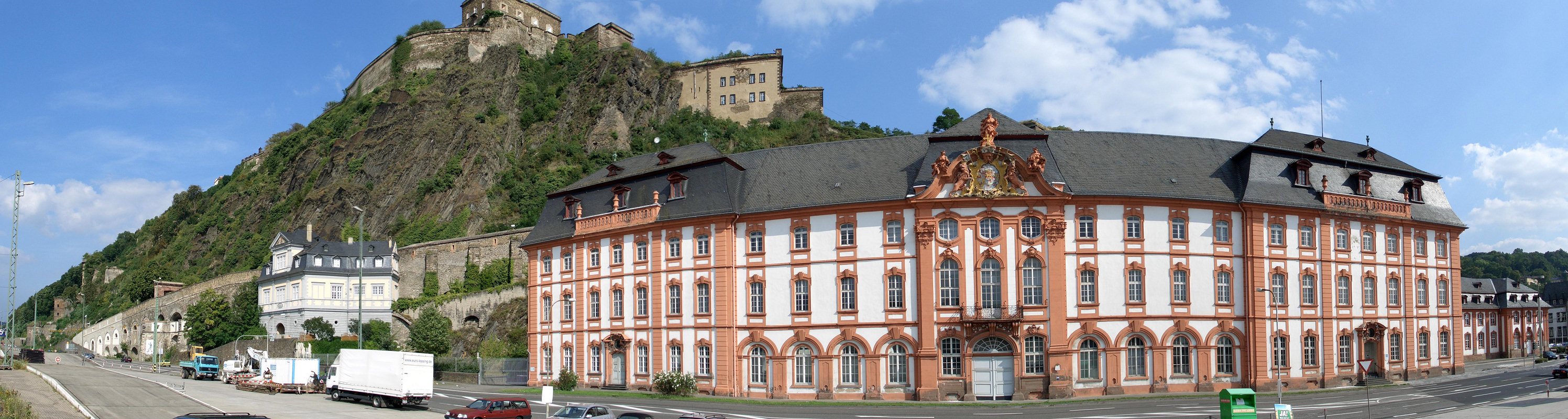 Building belonging to former castle Philippsburg in Koblenz-Ehrenbreitstein